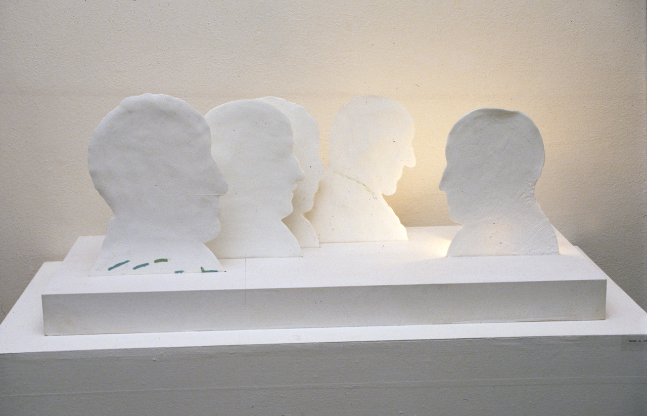 Jindra Viková, Awaiting Light, 1992, porcelain, wood 50 x 110 cm